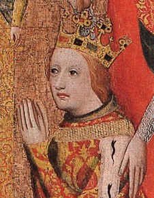 Wenceslaus, King of the Romans